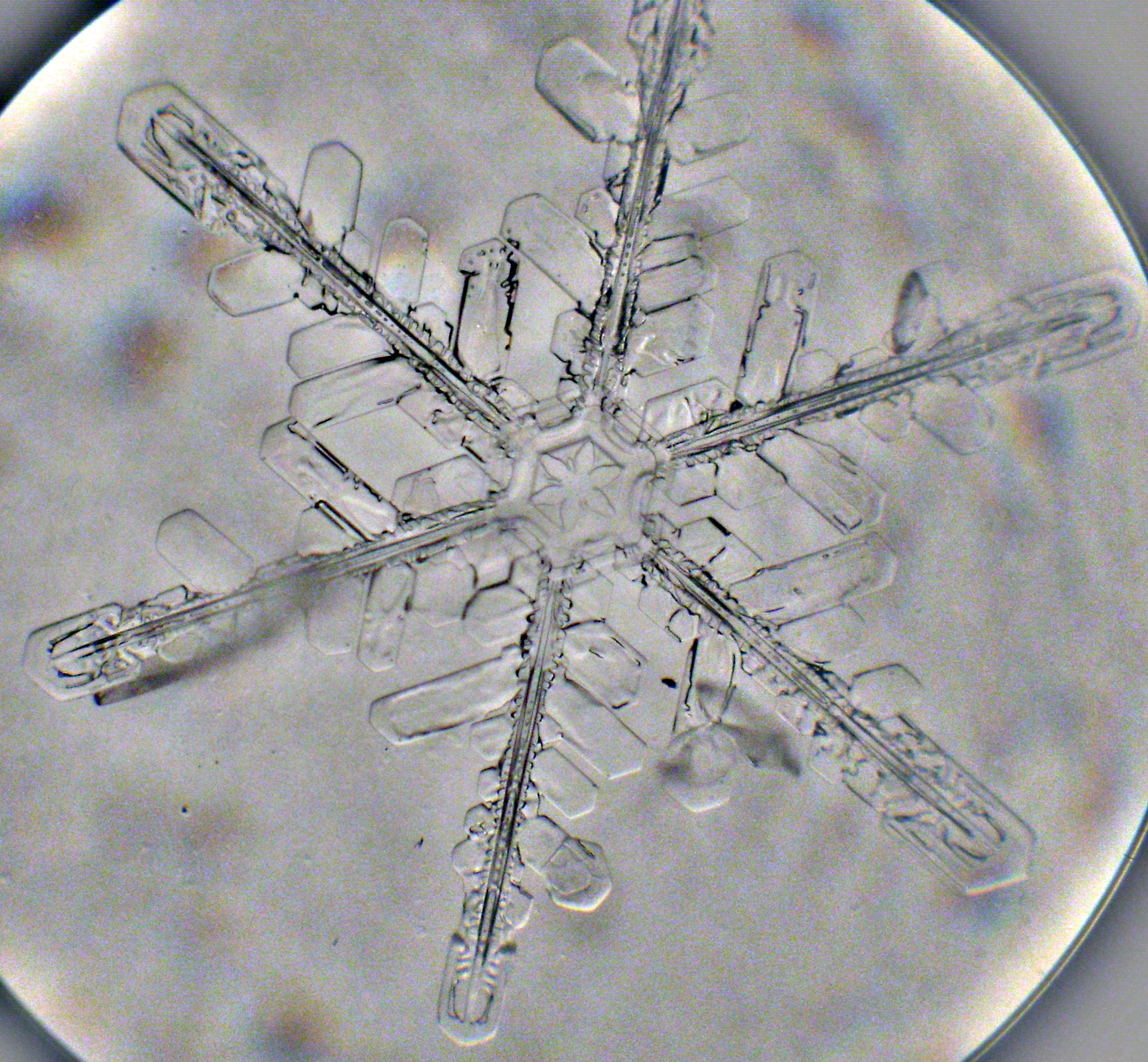 Snowflake. Small microscope kept outdoors. Snapshot camera held to eyepiece focus set to infinity.